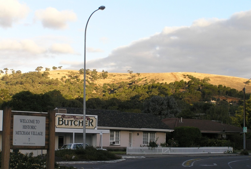 IanRiley